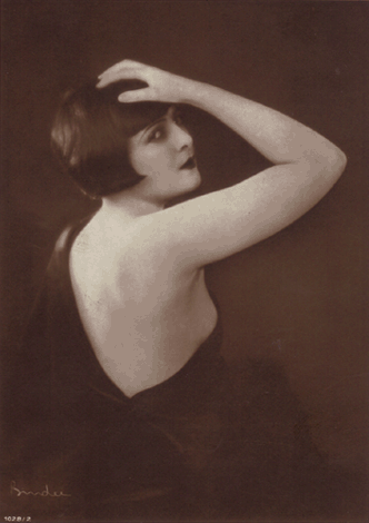 Lya De Putti